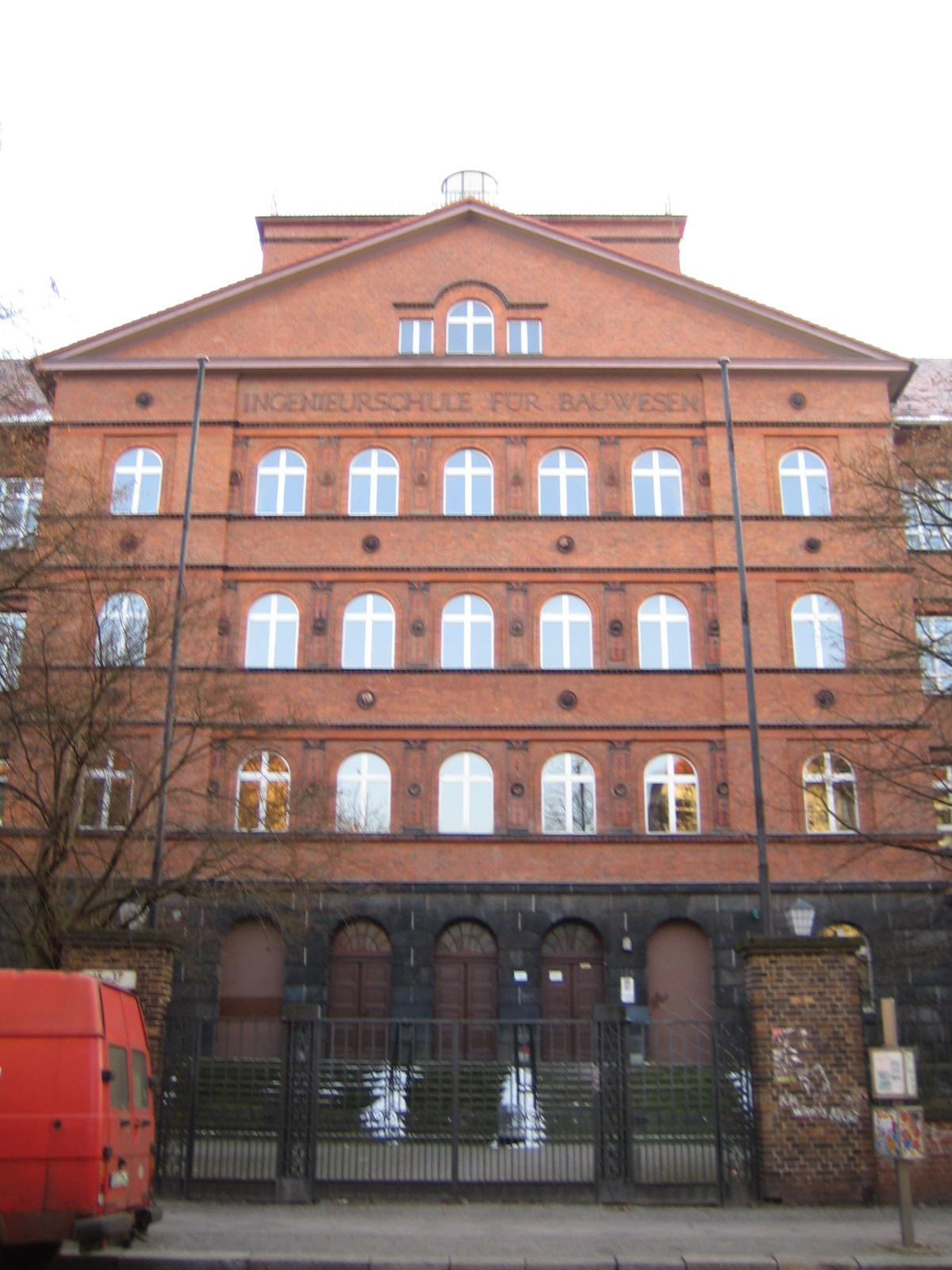 School of engineering for building industry in Berlin-Neukölln.